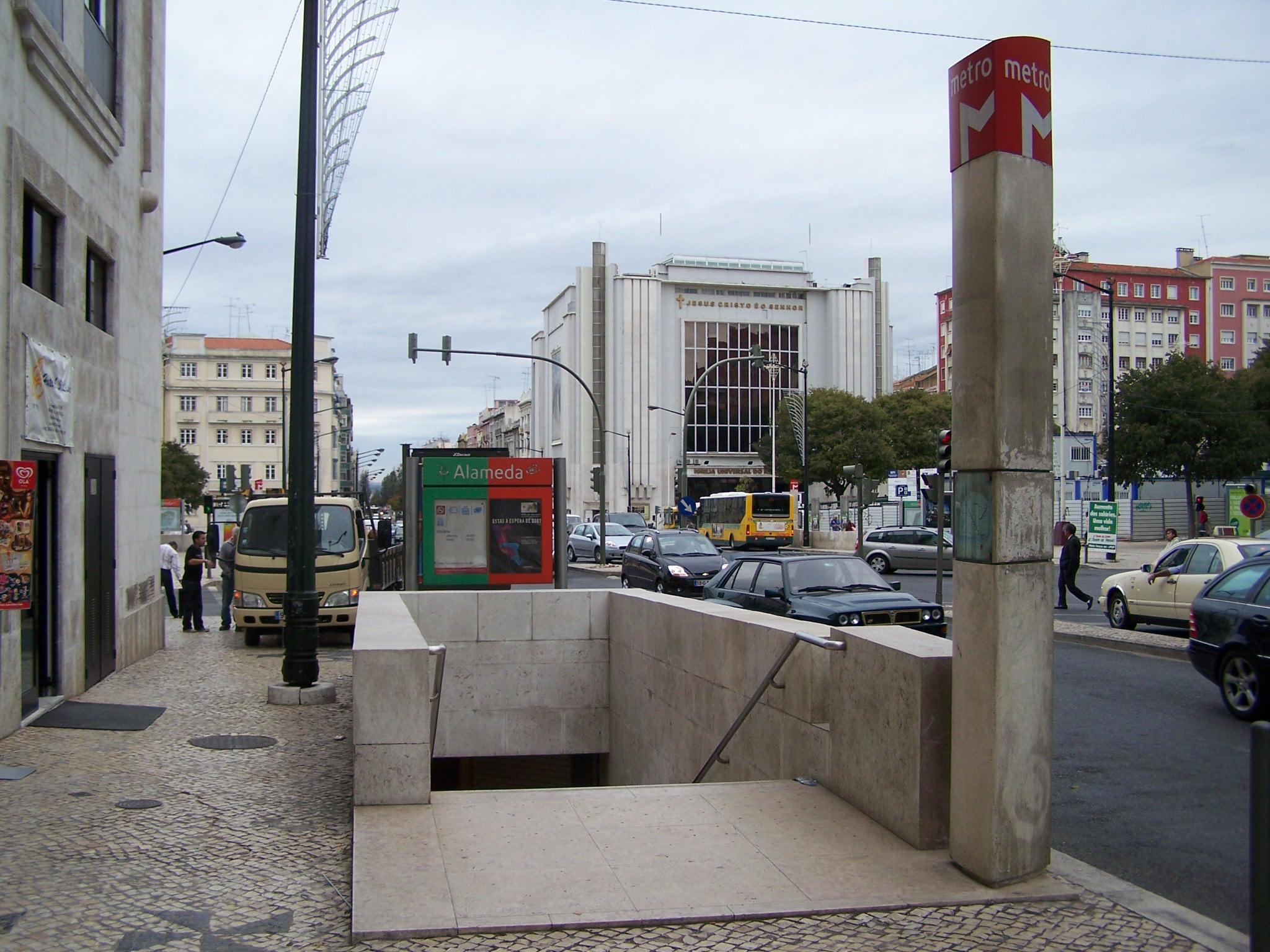 entrance to the Lisbon metro station Alameda, red and green line, Lisbon, Portugal